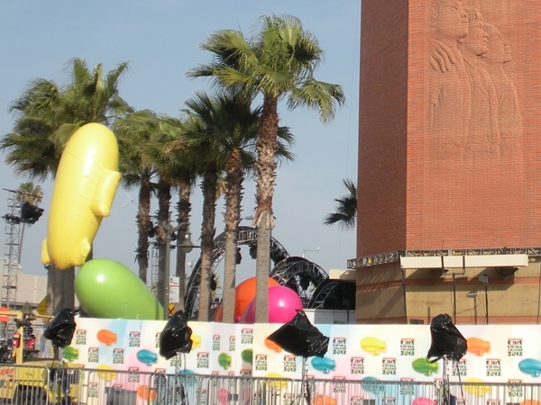 Exterior staging area at 2012 Kids Choice Awards in Los Angeles CA